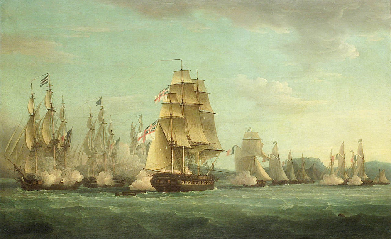 HMS 'Spartan' and French Frigates: Beginning of the Action, Third of May 1810 This shows the beginning of the action on 3 May 1810, between the British ship ‘Spartan’ and the Neapolitan frigate ‘Cérère’ with her consort, in the Bay of Naples. On 1 May the British ships ‘Spartan’ and ‘Success’ chased a Neapolitan squadron inside the mole at Naples. It consisted of the ‘Cerere’ the ‘Fama’ the ‘Sparvievo’ and the ‘Achille’. Captain Jahleel Brenton, captain of the ‘Spartan’, assuming that the enemy would not come out to fight two British frigates, sent the ‘Success’ off to rendezvous on the 2 May. In fact the Neapolitan squadron did decide to fight having embarked 400 Swiss troops into the ‘Cerere’ and ‘Fama’. So when the ‘Spartan’ approached Naples early on 3 May Brenton saw the enemy squadron sailing out to meet him, supported by seven gunboats. In the two hour action that followed, the ‘Cerere’ and ‘Fama’ both hauled off, the latter badly damaged, and the ‘Sparvieto’ was forced to strike. Captain Brenton, conducted the fight standing on the capstan, was hit on the hip by a piece of grapeshot and badly wounded. His First Lieutenant, George Willes, who took over, was also wounded, as were 20 others, with ten men killed. In the centre of the painting the ‘Spartan’ is shown firing her port broadside into the Neapolitan ships. They are shown on the left, passing ‘Spartan’ and firing at her. They are led by the ‘Cerere’ on the left of the painting followed by the ‘Fama’ and ‘Sparviero’. Beyond and to the right of the ‘Spartan’ the cutter ‘Achille’ is shown firing into her as she brings up the seven gunboats in the right background. Naples can be seen in the distance and provides a backdrop for the action. The painting is signed and dated ‘Thos. Whitcombe 1810’ and is on loan from the Greenwich Hospital Collection HMS 'Spartan' and French Frigates: Beginning of the Action, Third of May 1810